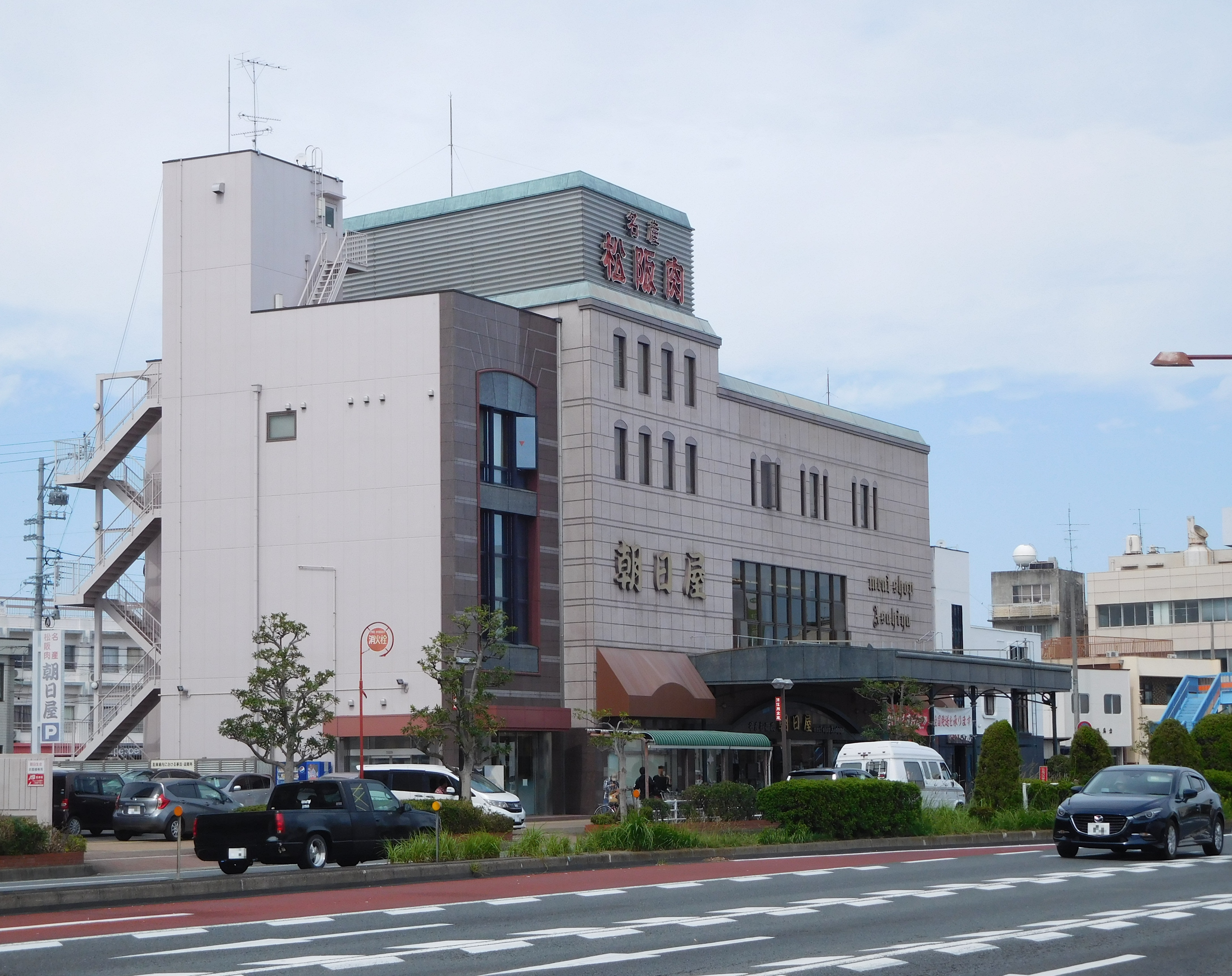 This is the meat shop called "Asahiya", which is in Tsu, Mie, Japan.